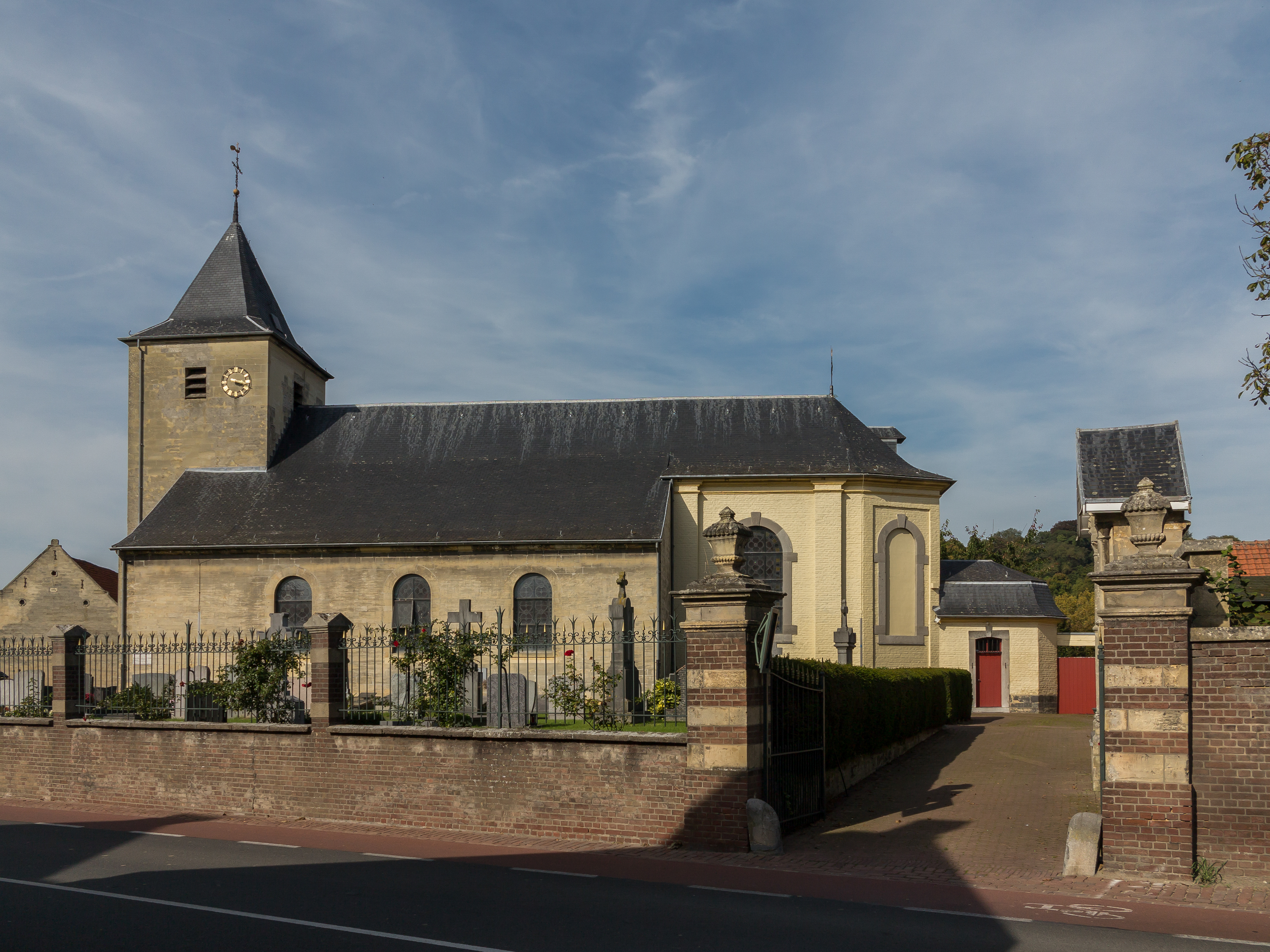 Oud Valkenburg, church: de Johannes de Doperkerk